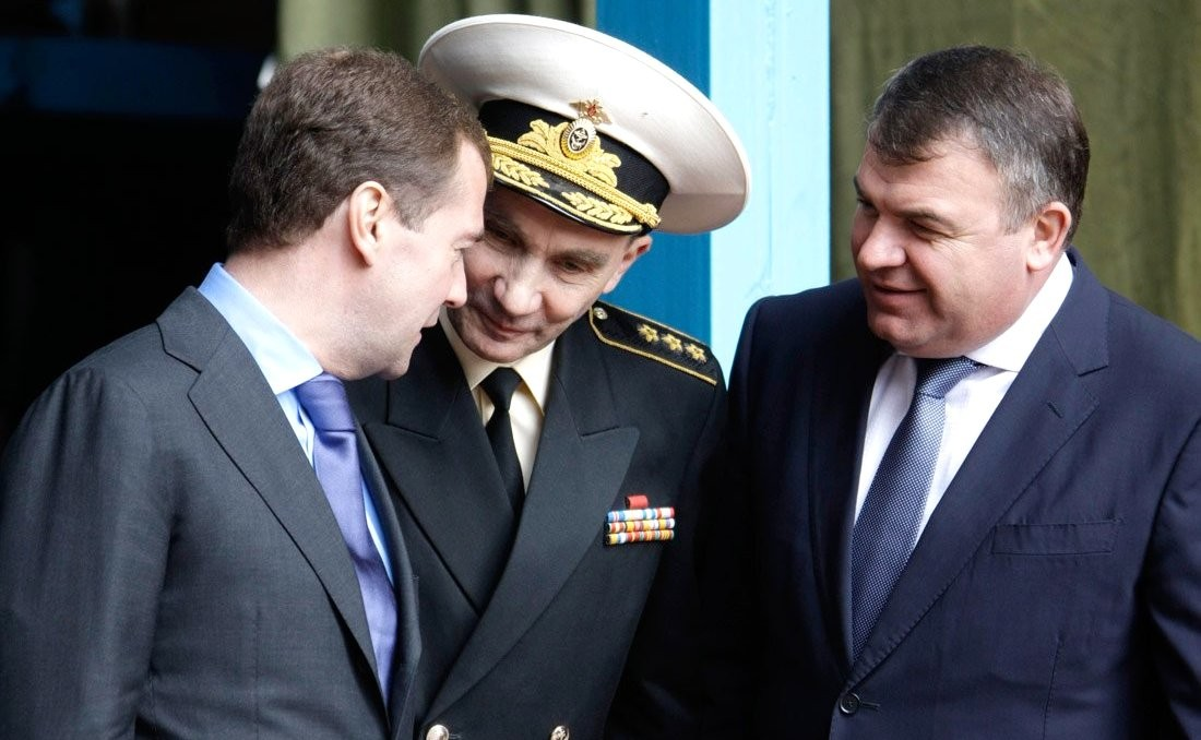 From left to right: President of Russia Dmitry Medvedev, Commander-in-Chief of the Russian Navy Vladimir Vysotsky, Minister of Defence of Russia Anatoly Serdyukov at ceremony of launching Russian submarine Severodvinsk